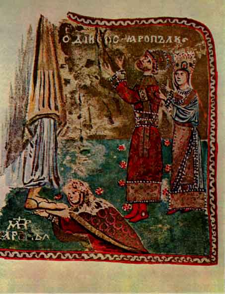 Miniature from the Gertrude Psalter. Polish manuscript scene with Church Slavonic insk.: "OD JANIWO SWJAROGI JARO LJAHE"